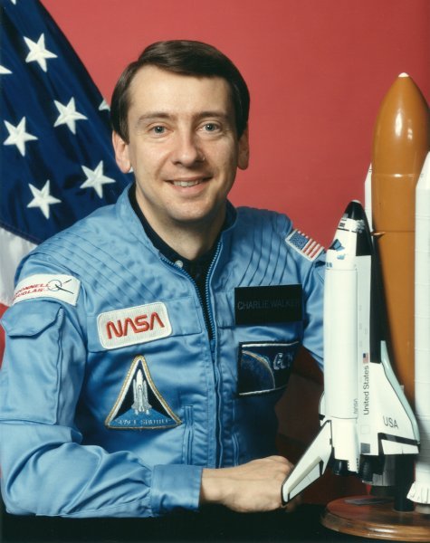 Official NASA portrait of Charles D. Walker